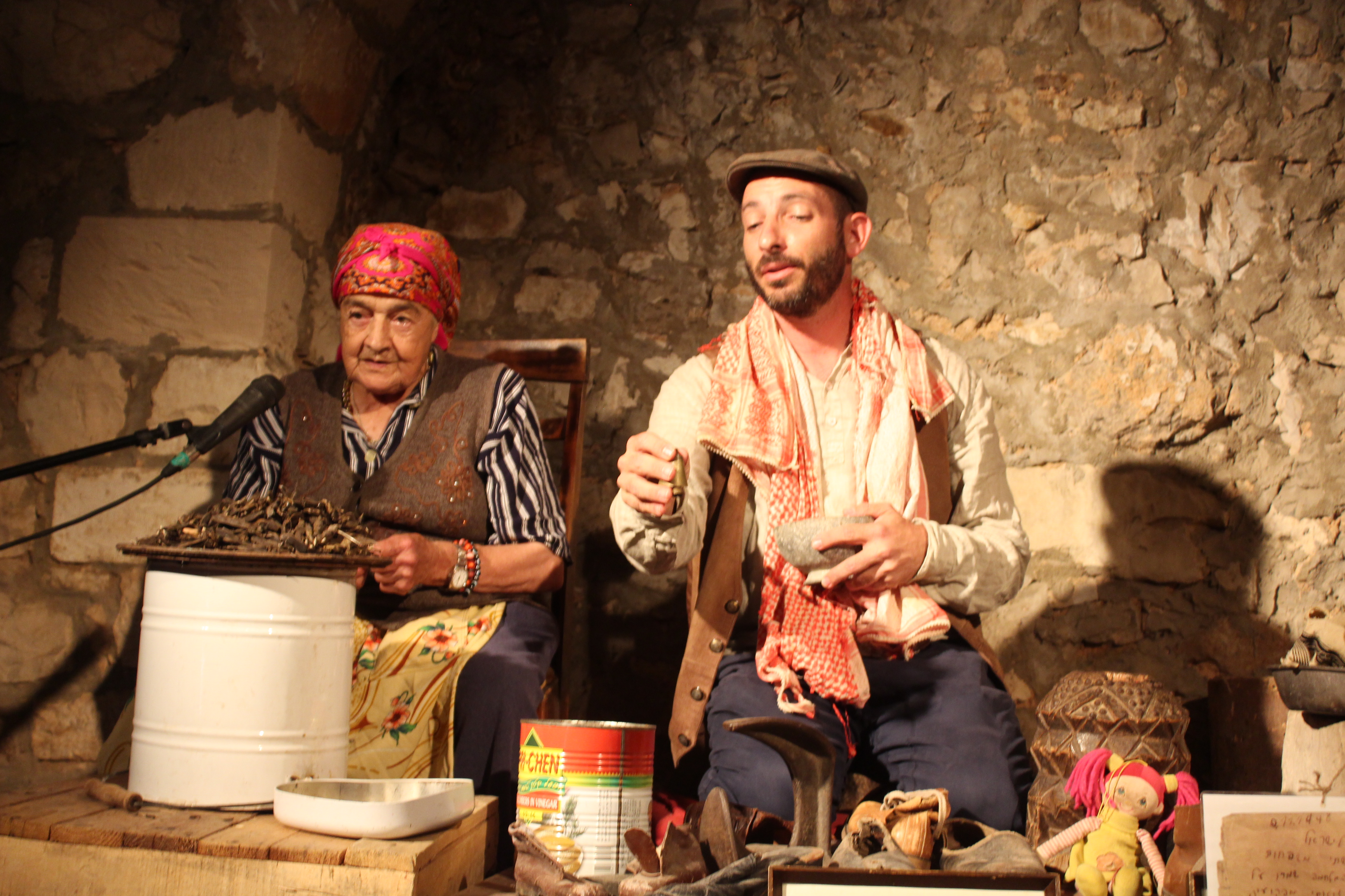 Zinati House visitors center, Peqi'in, Israel This image was taken as part of the Elef Millim project trip to Beit Zinati, in Peki'in which was held on Friday, 10th June 2016. To view all images uploaded as part of the Elef Millim Project